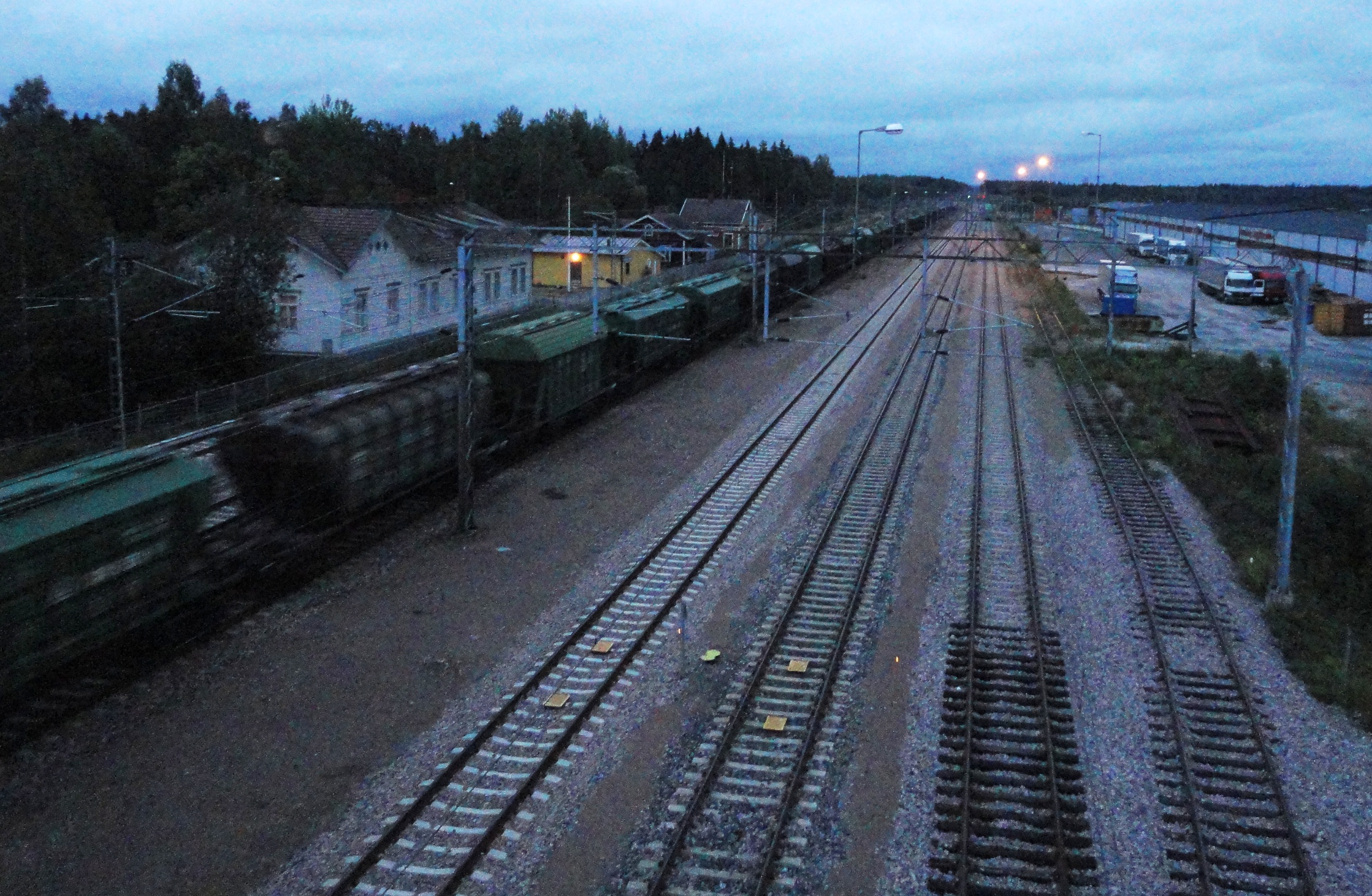 Luumäki railway station.